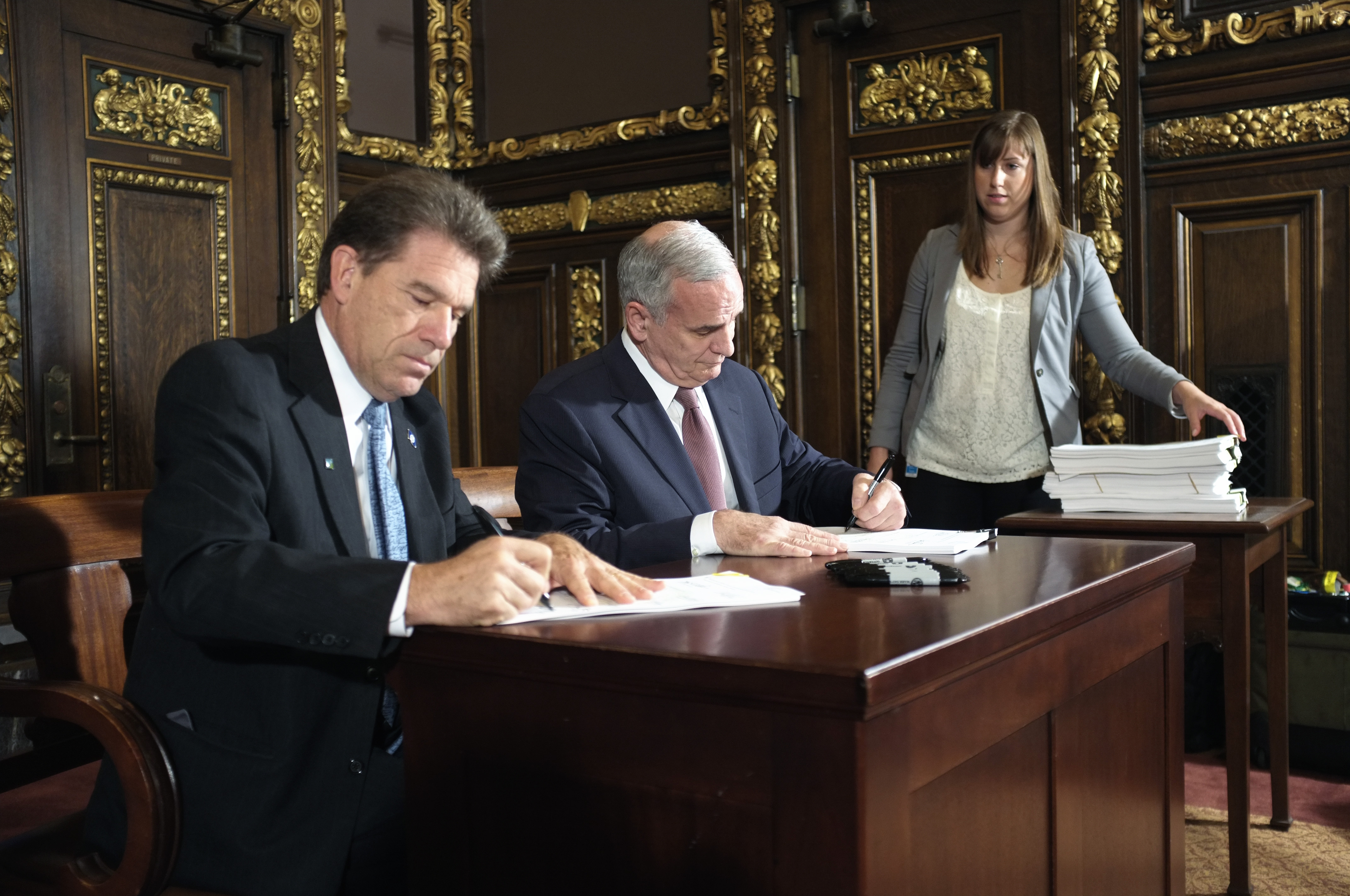 Minnesota Governor Mark Dayton signing into law the budget bills and bonding bill passed by the Legislature early the same morning during a special session, on 20 July 2011, ending the government shutdown. At left, Mark Ritchie.